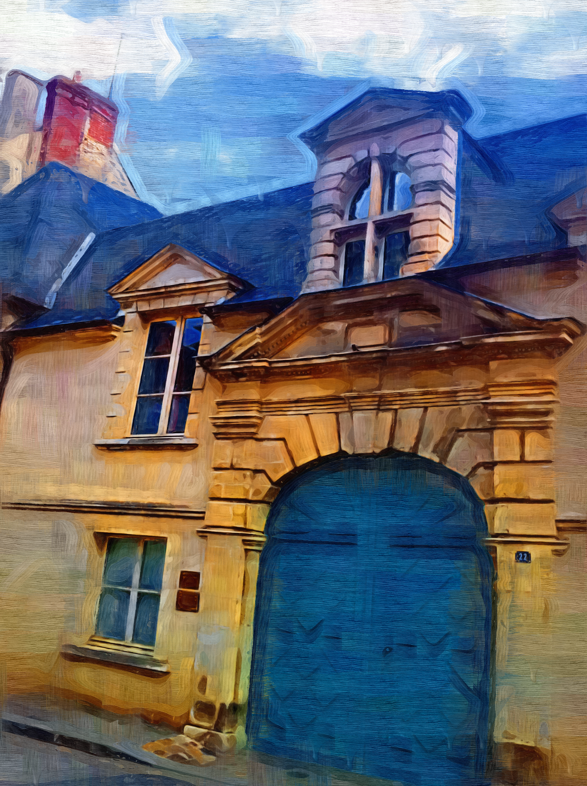 entrance portal to house in front of saint Martins